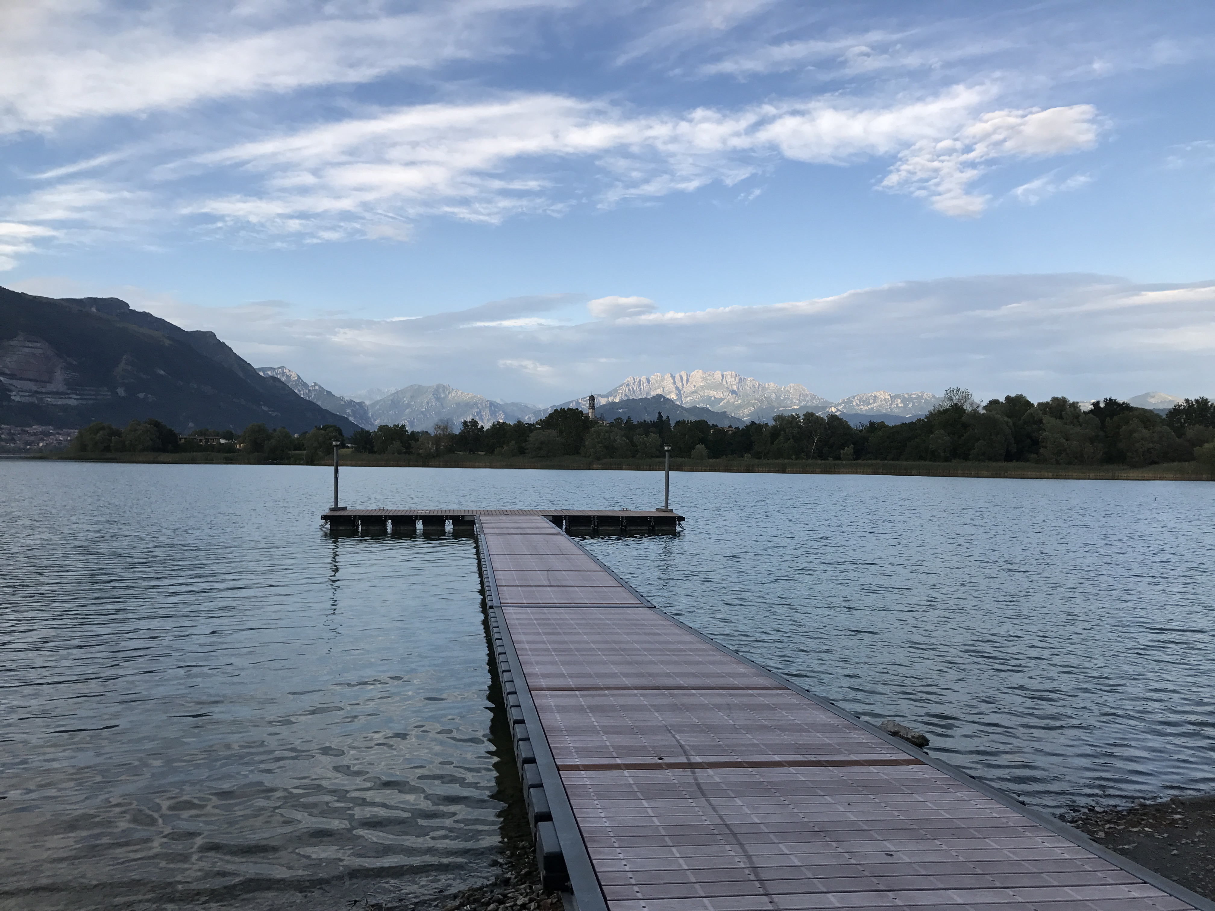 nice place in Lombardia, Italy